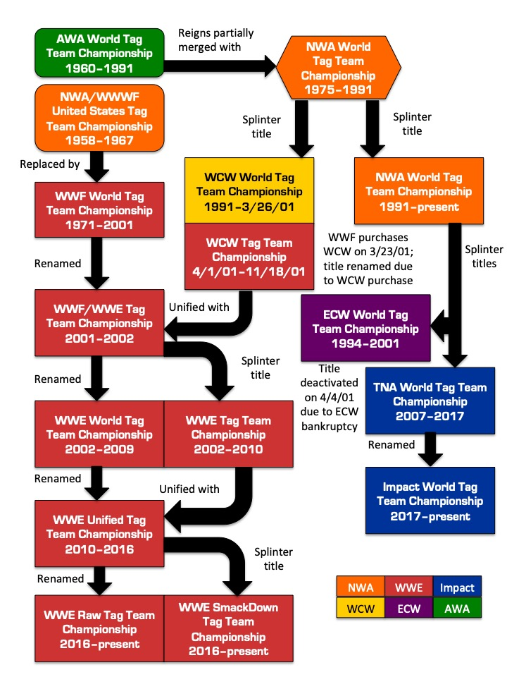 A diagram showing the lineage of various men's tag team championships in the NWA, WCW, ECW, WWE, and Impact promotions.